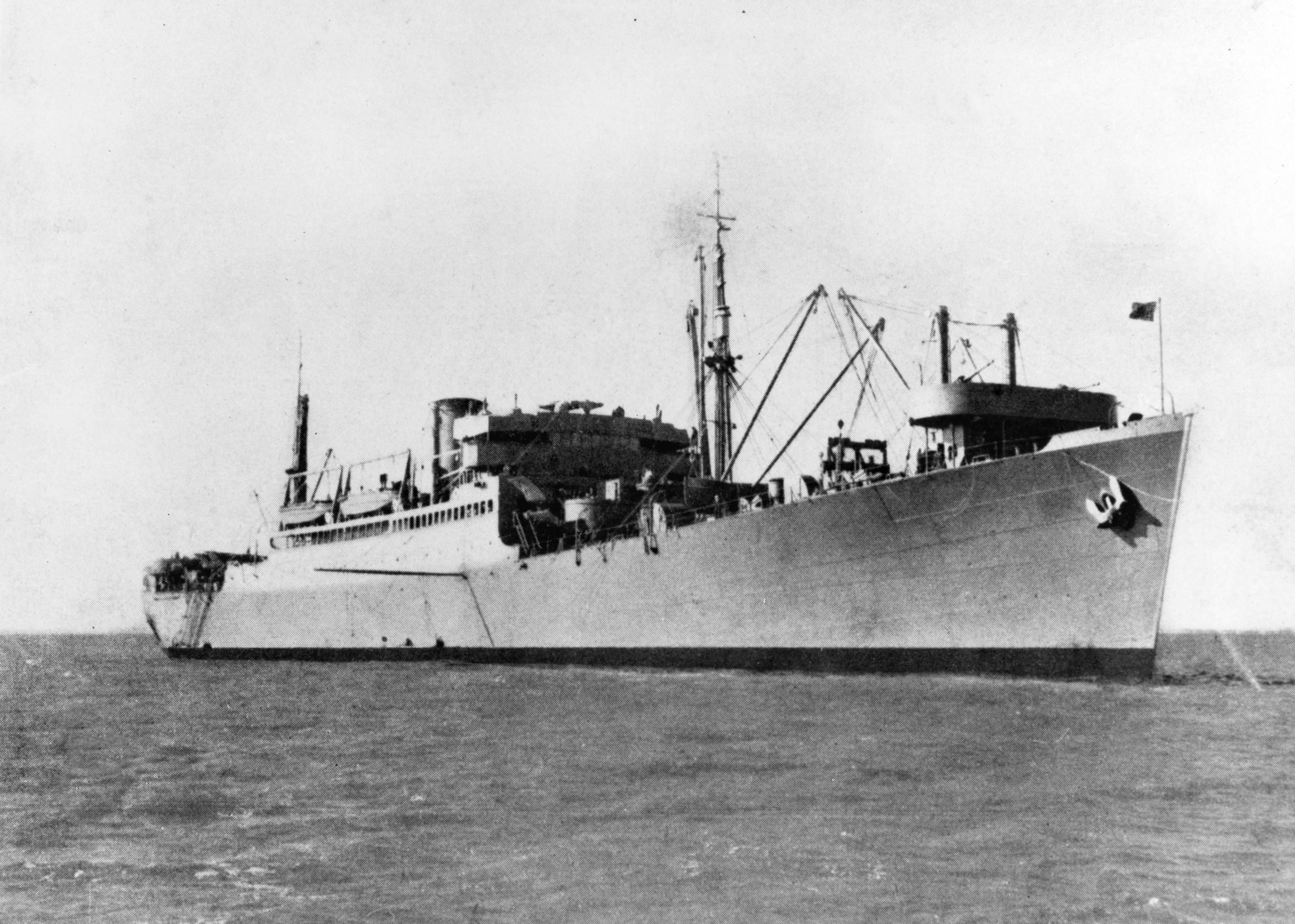 USS Fuller (AP-14), later APA-7, at anchor, place unknown, circa 1941.